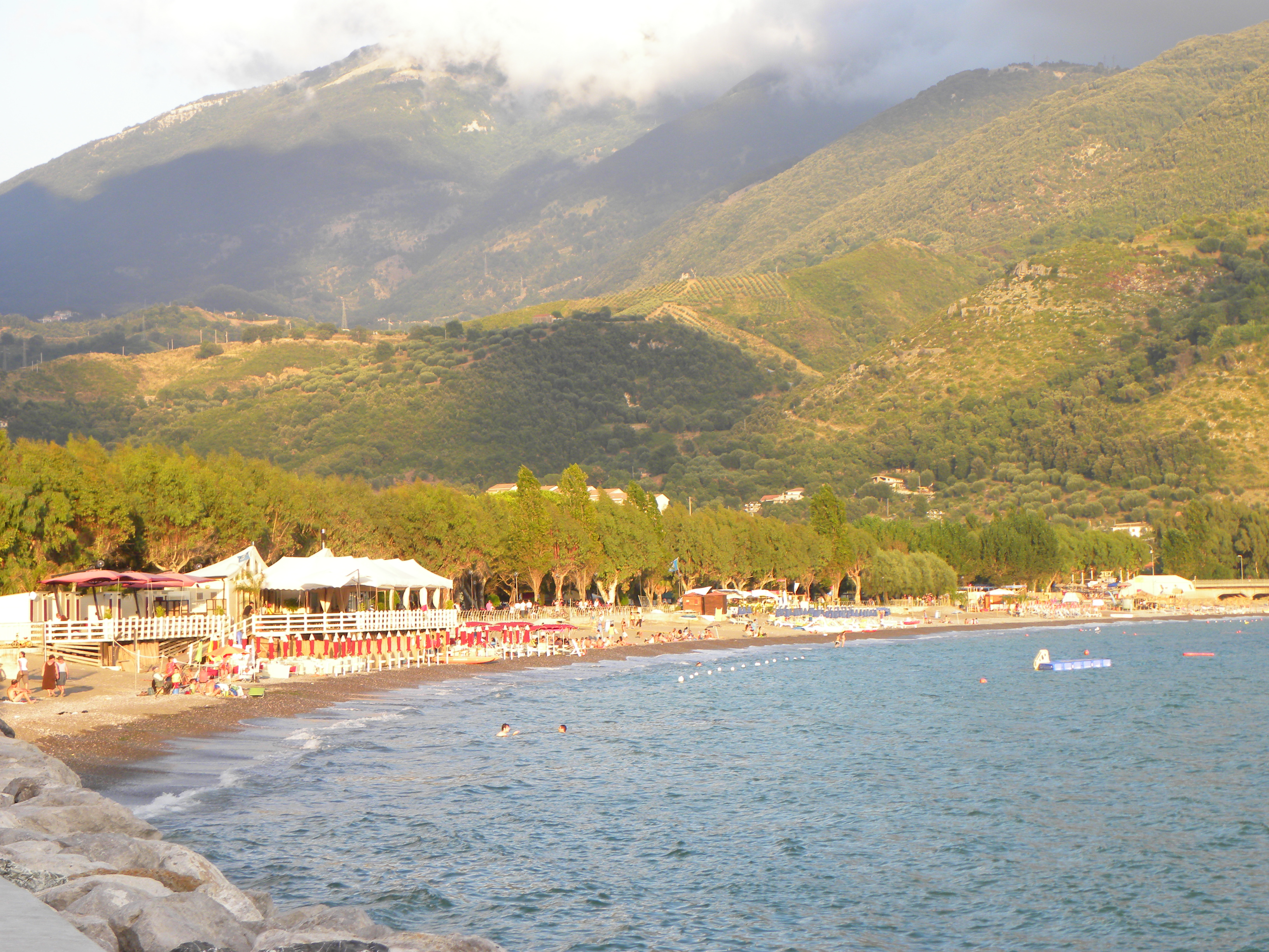 Sapri (SA), Italy, sea-front. In Cilento and Vallo di Diano National Park — in Campania.